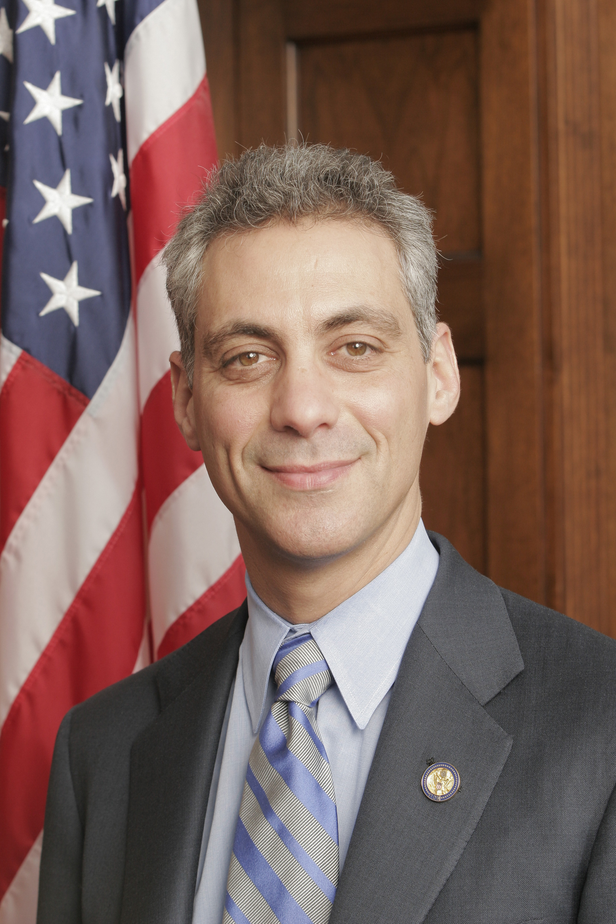 Rahm Emanuel, former White House Chief of Staff (2009-2010), former Mayor of Chicago (2011-2019)